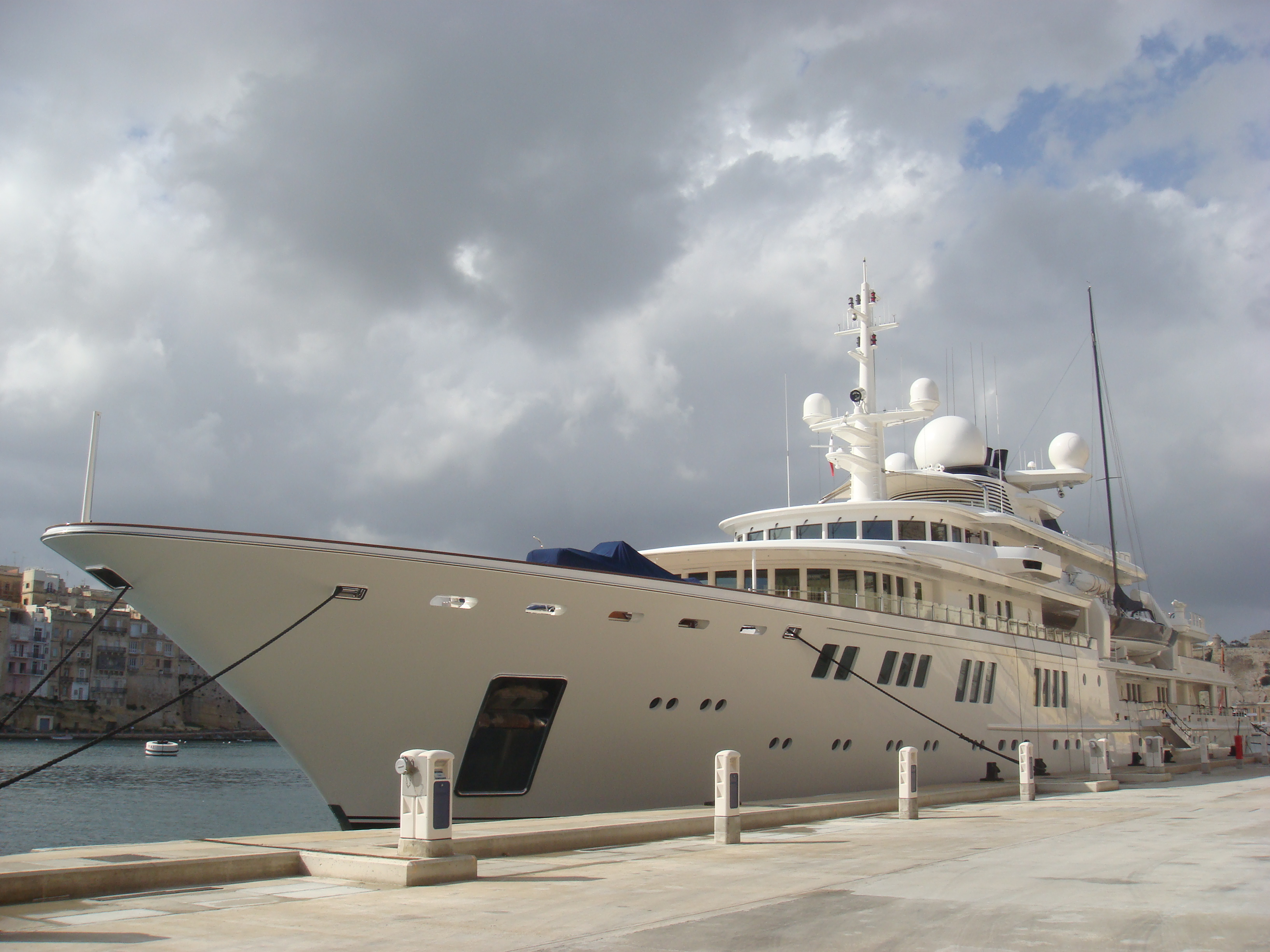 Superyacht Tatoosh of Microsoft co-founder Paul Allen, stopping in the Great Harbour of Valletta, Malta